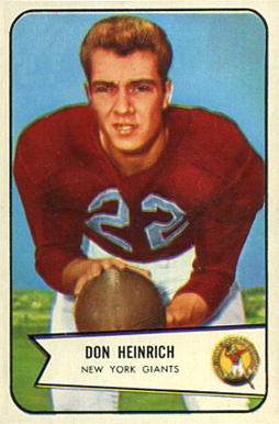 American football player Don Heinrich on a 1954 Bowman card.